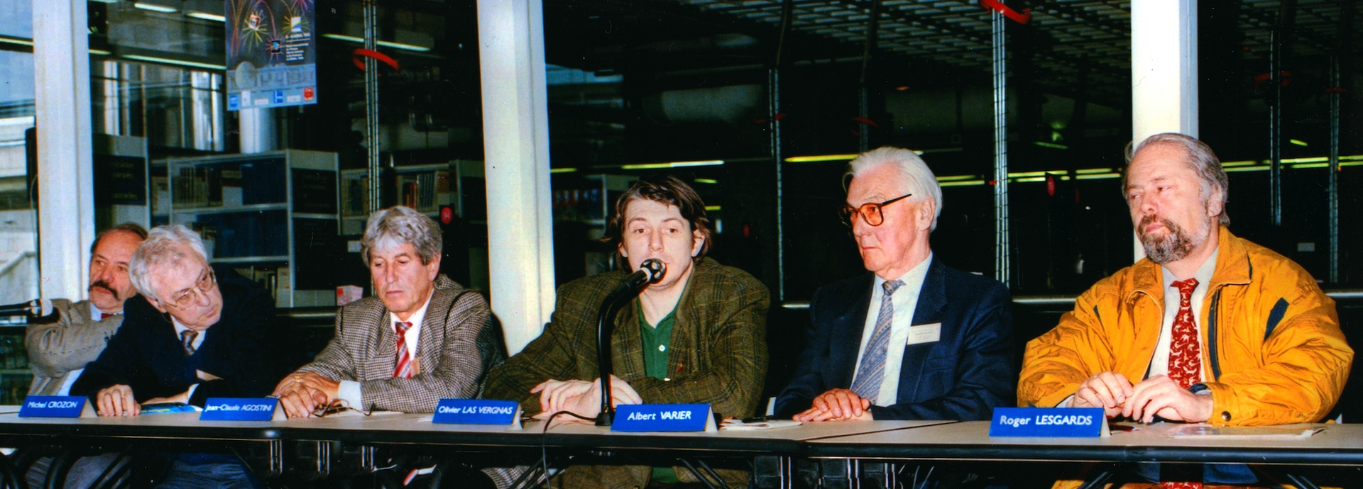 1993: Exposcience nationale et Festival des Exposciences à la Cité des Sciences et de l'Industrie (CSI) de La Villette, Paris, France. De droite à gauche, Roger Lesgards président de la CSI, Albert Varier président du CIRASTI, le comité scientifique du CIRASTI: Olivier Las Vergnas président de l'Association Française d'Astronomie, Agostini, Michel Crozon physicien, Etienne Guyon physicien.